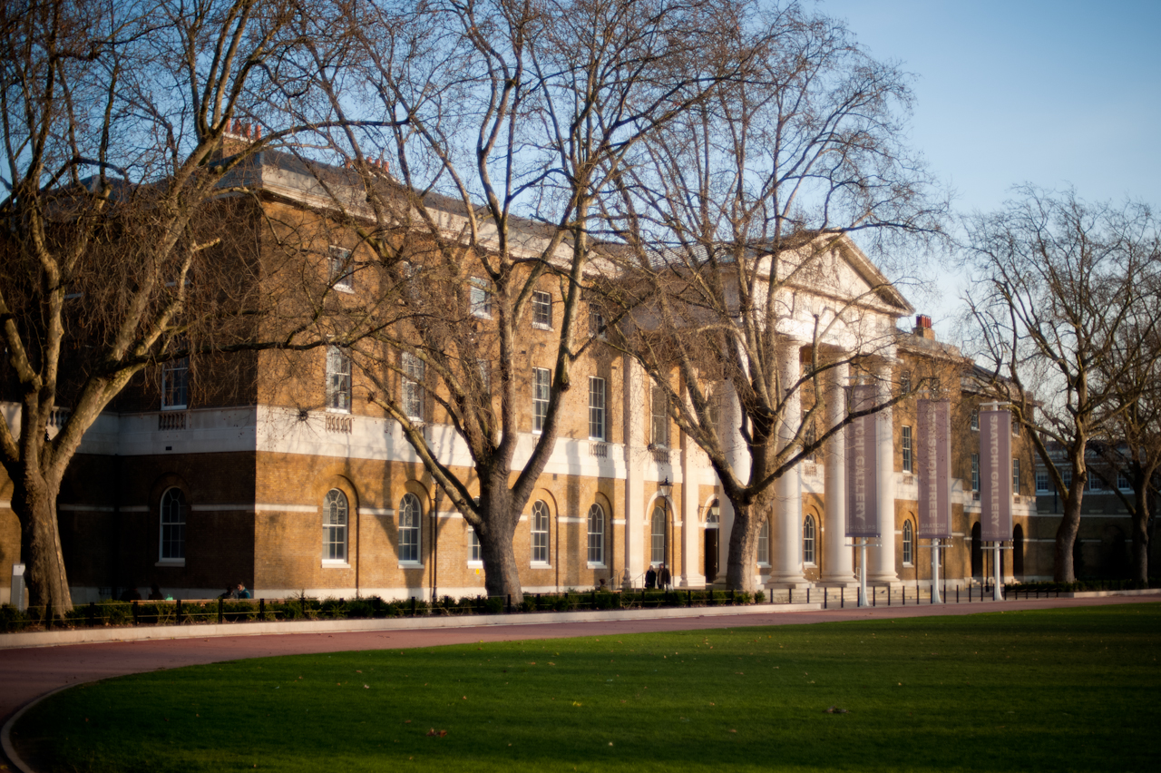 The Saatchi Gallery at the former Duke of York's Headquarters in Chelsea, London, UK